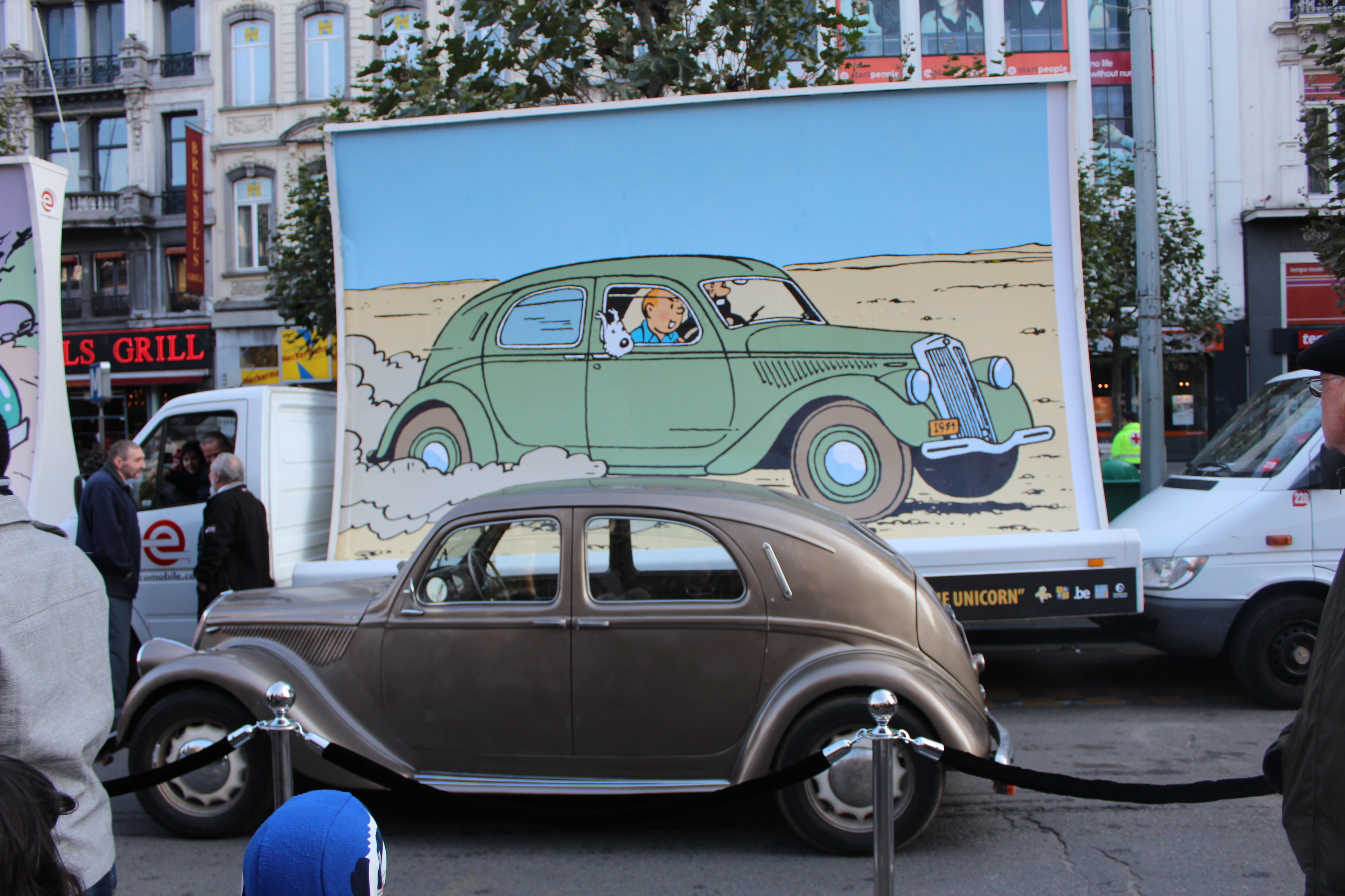 Car depicted in the Tintin comics series, during the events of the worls premiere of The adventure Tinitin - The Secret of the Unicorn in Brussels, on 2011-10-22